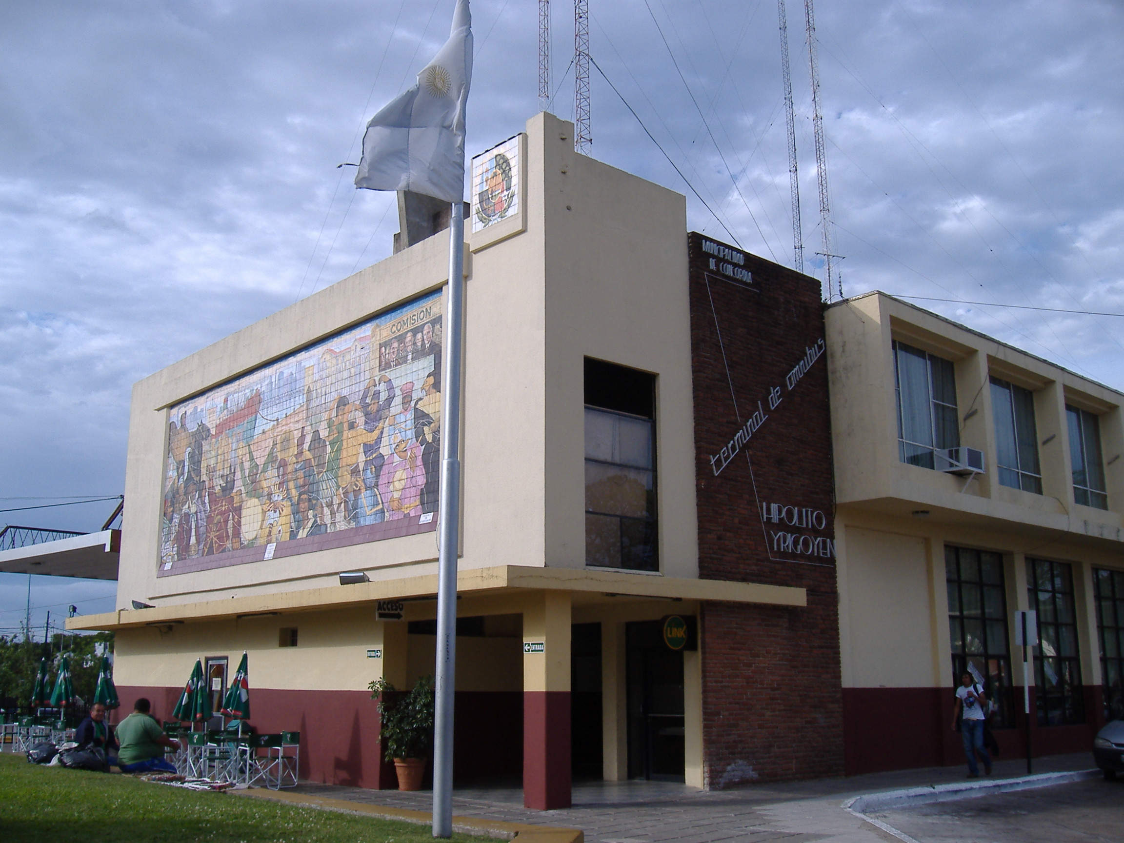 Terminal bus station of the city of Concordia, Entre Ríos Province, Argentina.